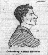 Naftali Botwin in the court. Source: Chwila, August 7, 1925, 6.